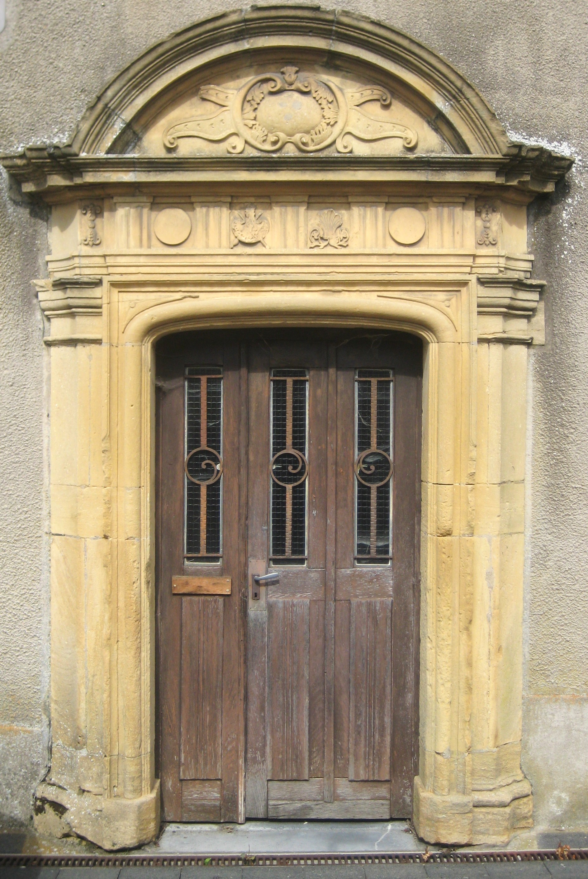 Description porte chateau fort Conflans Date7 August 2011Sourcemon appareil photoAuthorAimelaimePermission (Reusing this file) porte chateau fort Conflans